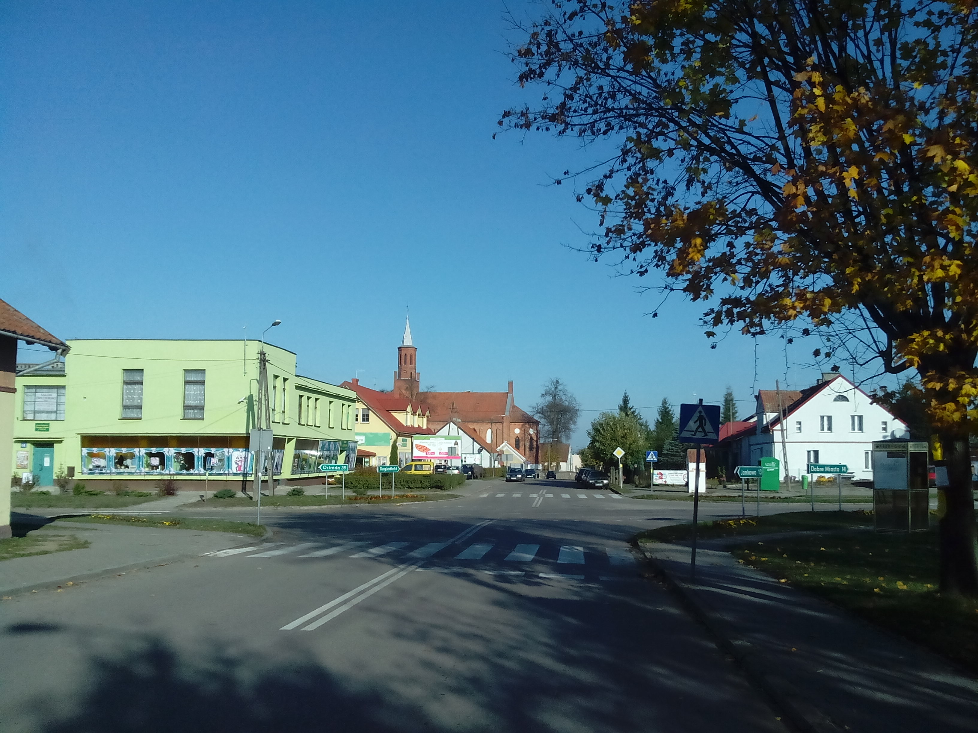 Świątki in 2014 (before 1945 Heiligenthal)